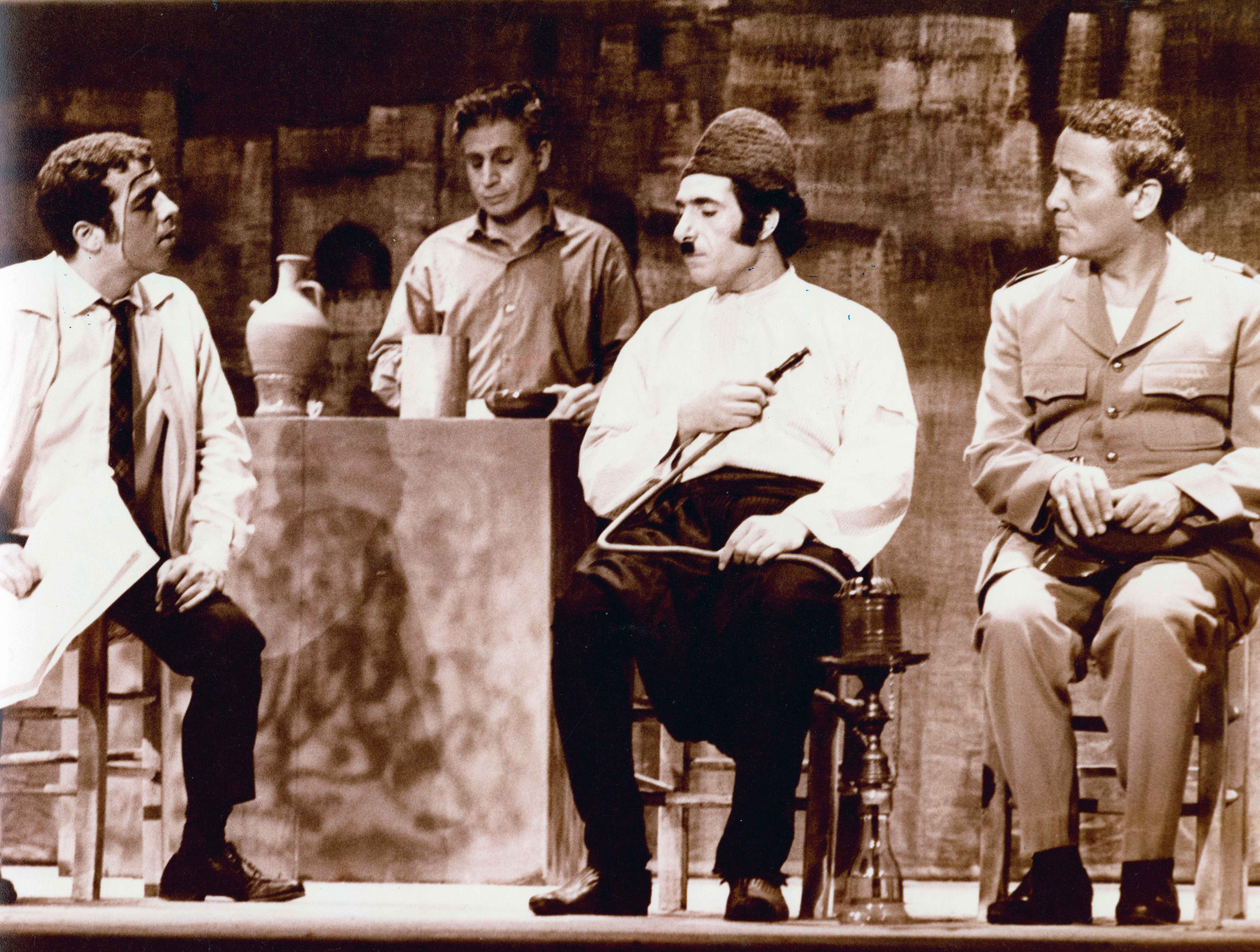 A theatre play directed by Lebanese playwright Jalal Khoury in 1971.